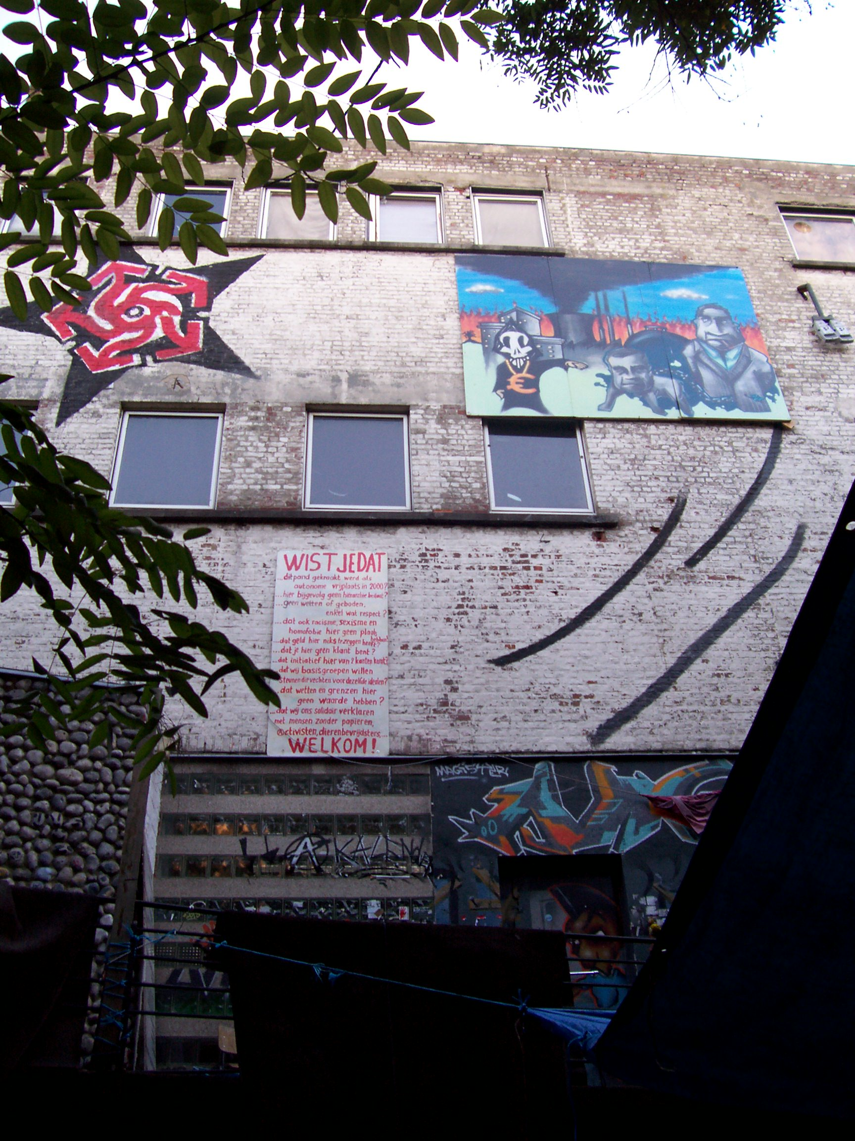 The face of the squat 'Villa Squattus Dei' in Leuven (Belgium). Also depicted: caricature of Louis Tobback, info sign in Dutch.